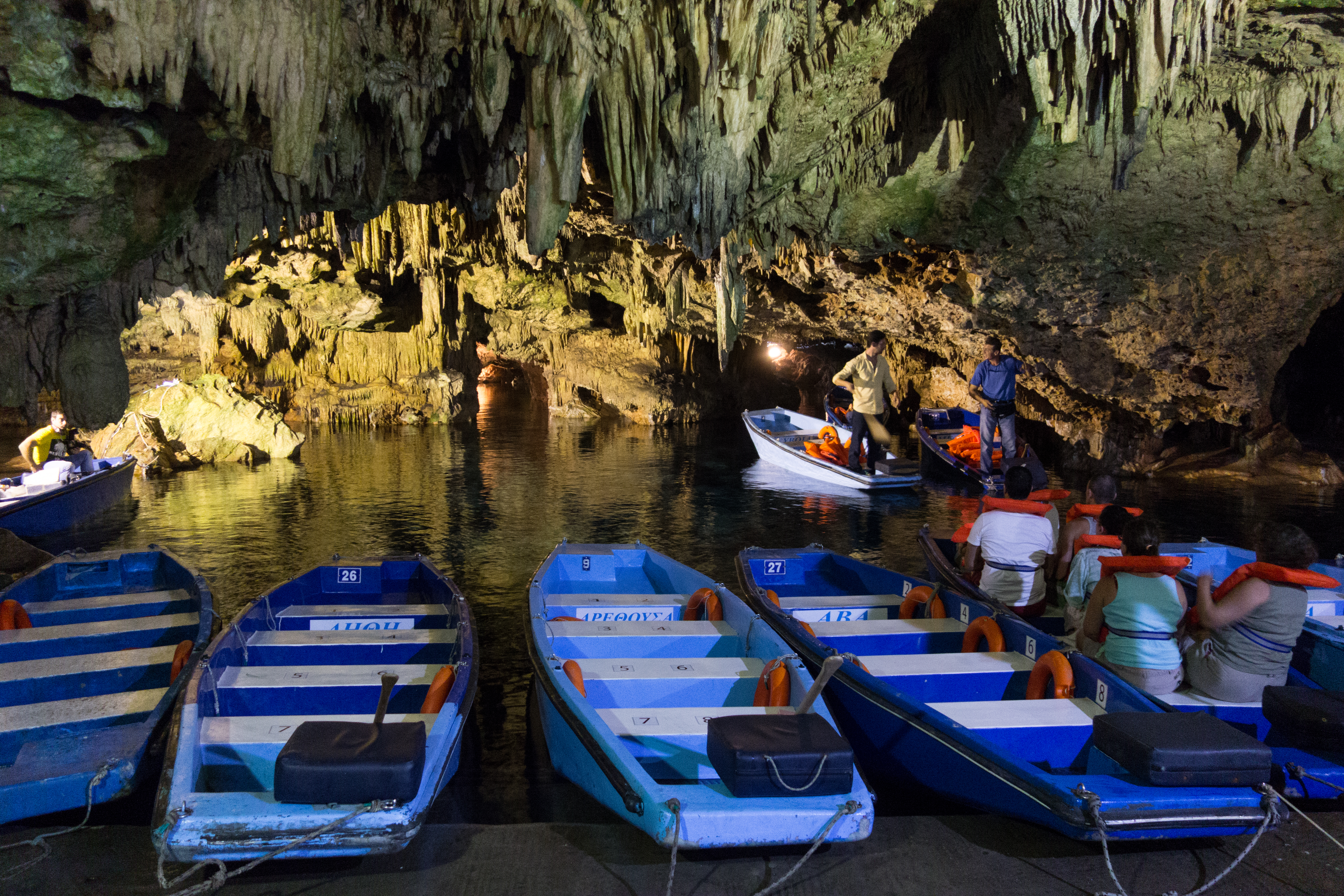 Starting point.«Σπήλαιο Βλυχάδα ή Γλυφάδα»